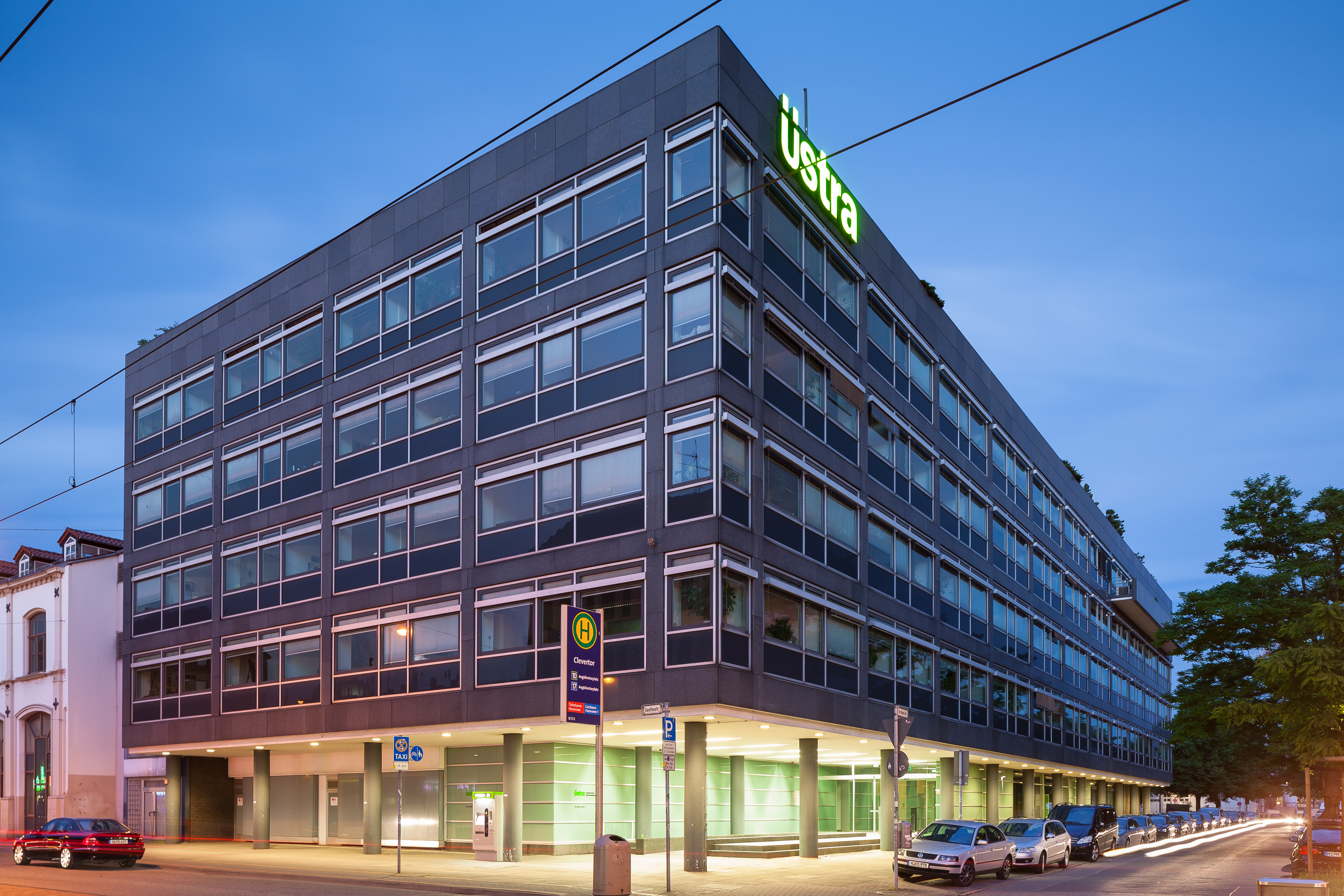 Office building of "Üstra" transportation company located at Goethestrasse in Hanover, Germany.